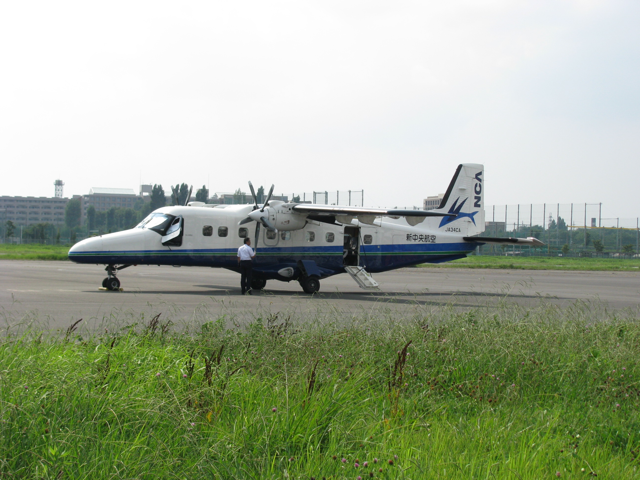 A Dornier Do 228 of New Central Airlines. This location is Chōfu in Tokyo, Japan.